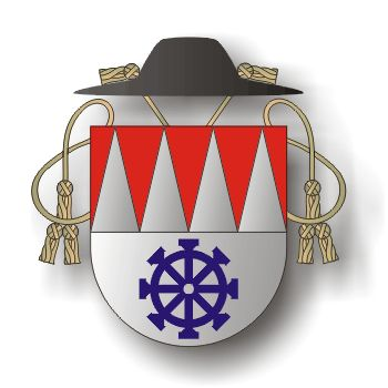 Coat of arms of dean´s office Valačské Meziříčí